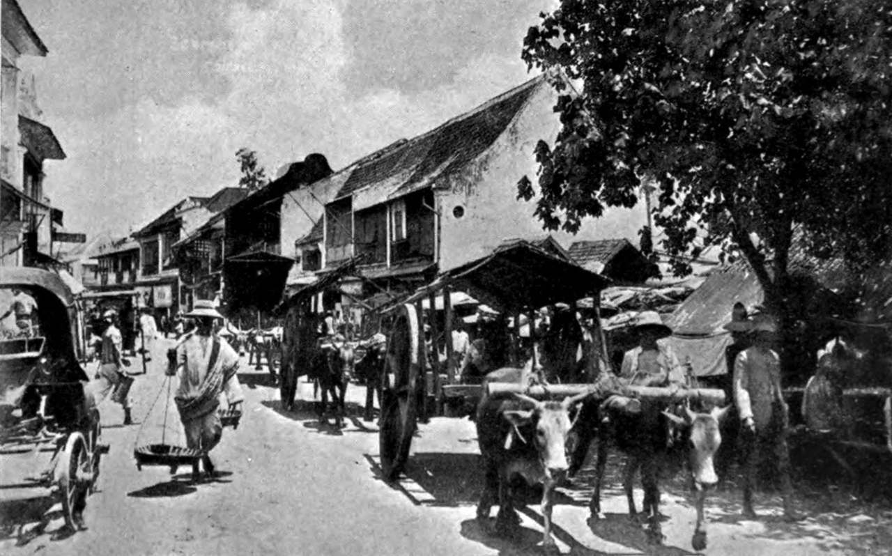 Cropped, resized and re-normalized to black and white from the plate facing p72 of 'Java, Sumatra and Other Islands of The Dutch East Indies' by A. Cabaton. (Translated to English with a preface by Bernard Mill.) Published by T. Fisher Unwin, 1911. Image from full text available at The Internet Archive.